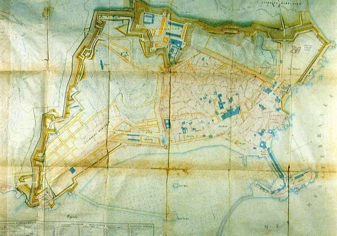 Map of Algiers in 1840.